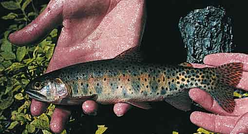 Greenback cutthroat trout (Oncorhynchus clarki stomias)